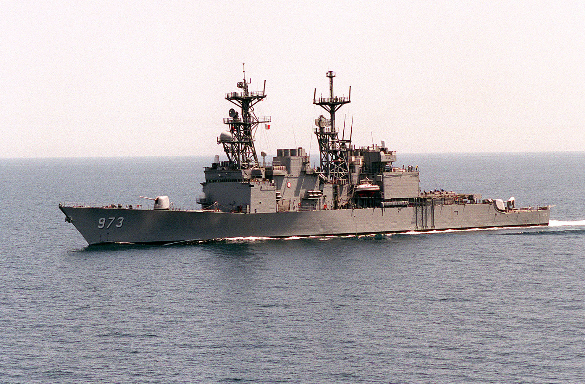 The Spruance Class Destroyer, USS JOHN YOUNG (DD-973), underway in the Persian Gulf in support of the Southwest Asia build-up.